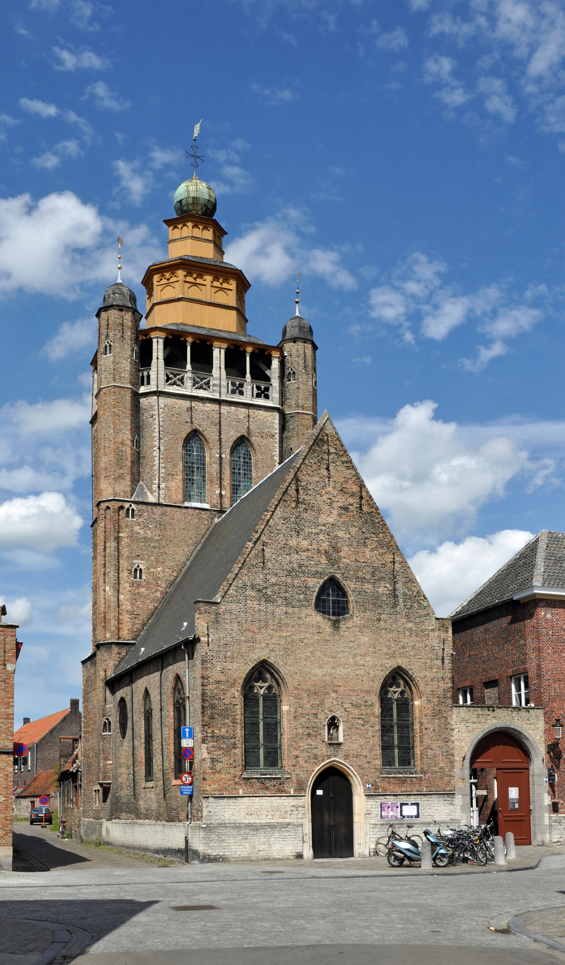 Bruges (Belgium): Jerusalem church